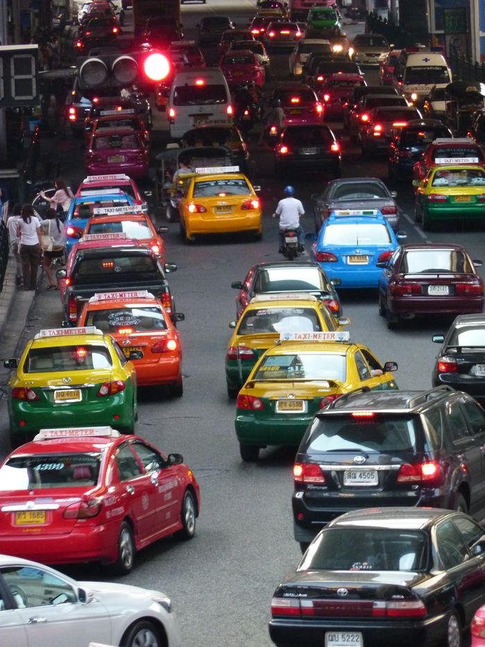 Sukhumvit, taxis et embouteillages, Thanon Sukhumvit - Bangkok Location: Bangkok